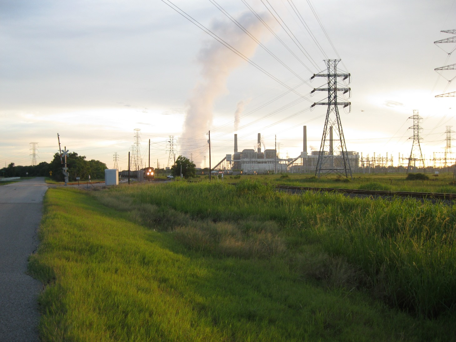 The photo shows the W A Parish Power Plant near Thompsons, Texas. The unit shown burns coal. A second unit burns natural gas.